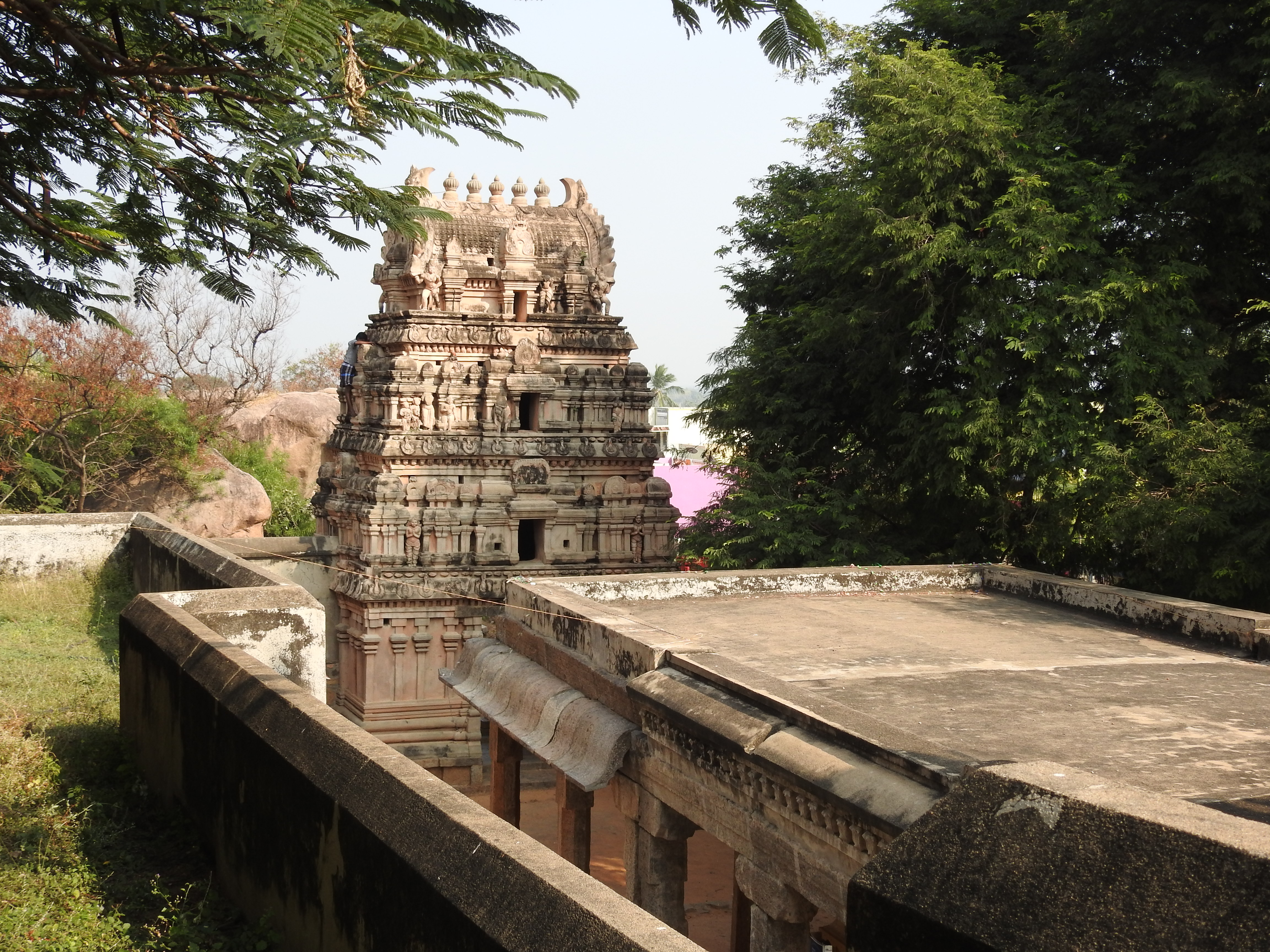 திருமலை சமணர் கோயில்